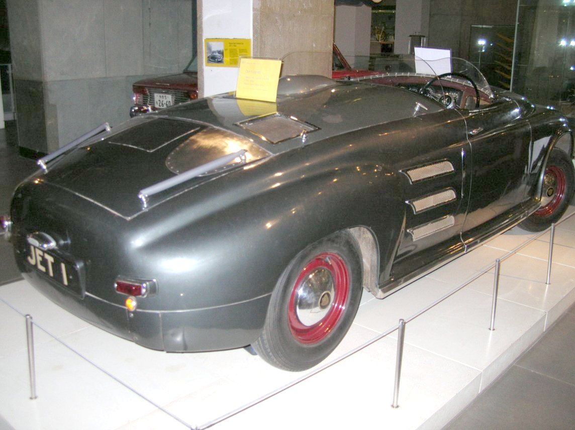 Summary Rover Jet1 Gas Turbine car, on display at the Science Museum London.